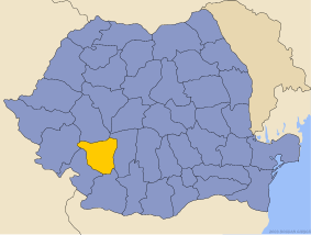 Location of Gorj County in Romania.